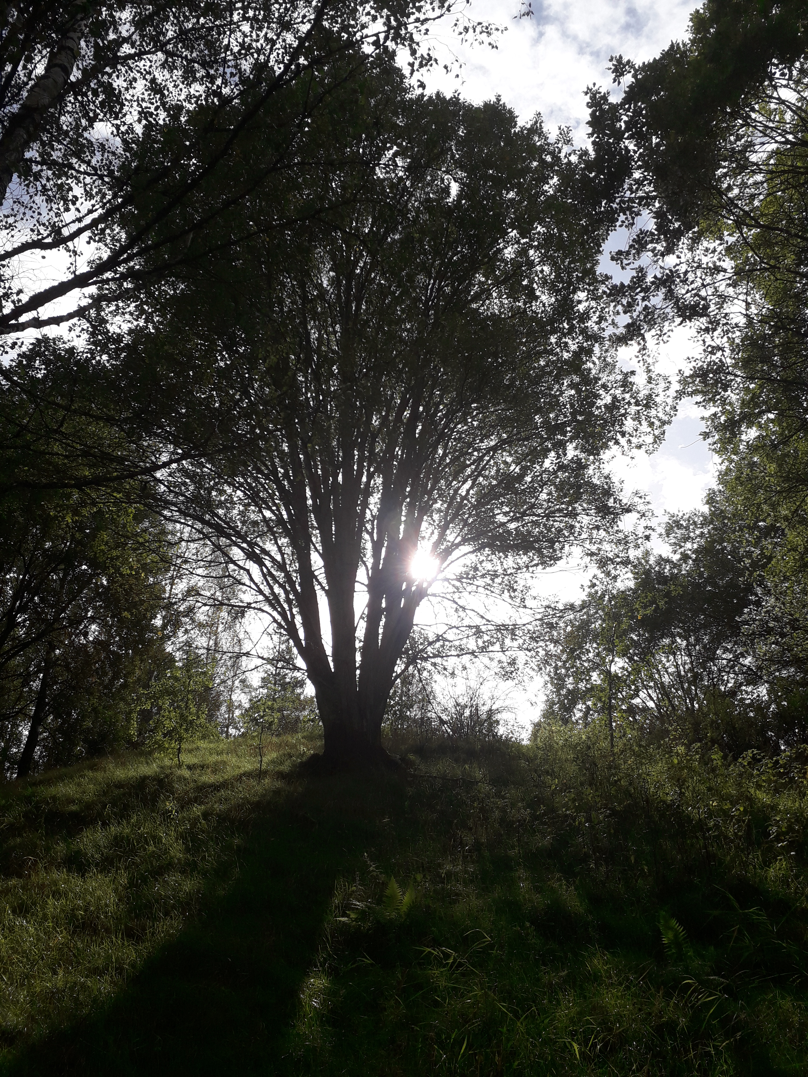 Lundbykullen